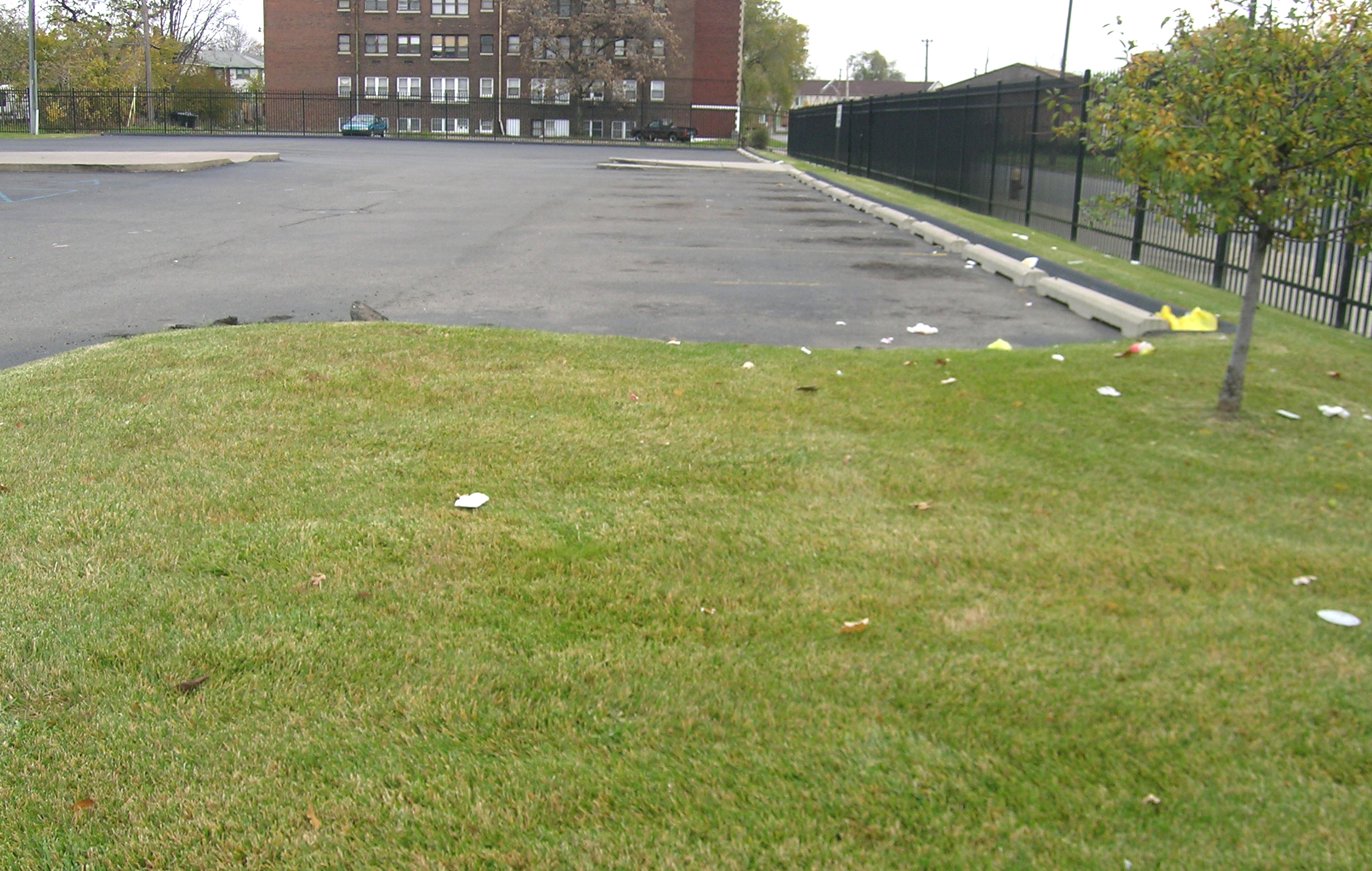 Lot where Grand Riviera Theater Detroit (now demolished) once stood